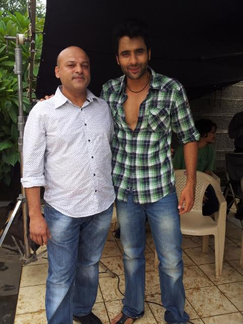 Jackky Bhagnani with Deepak Bhanushali during shoot of Rangrezz